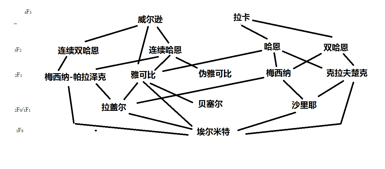 Askey Scheme hypergeom orthogonal polynomials